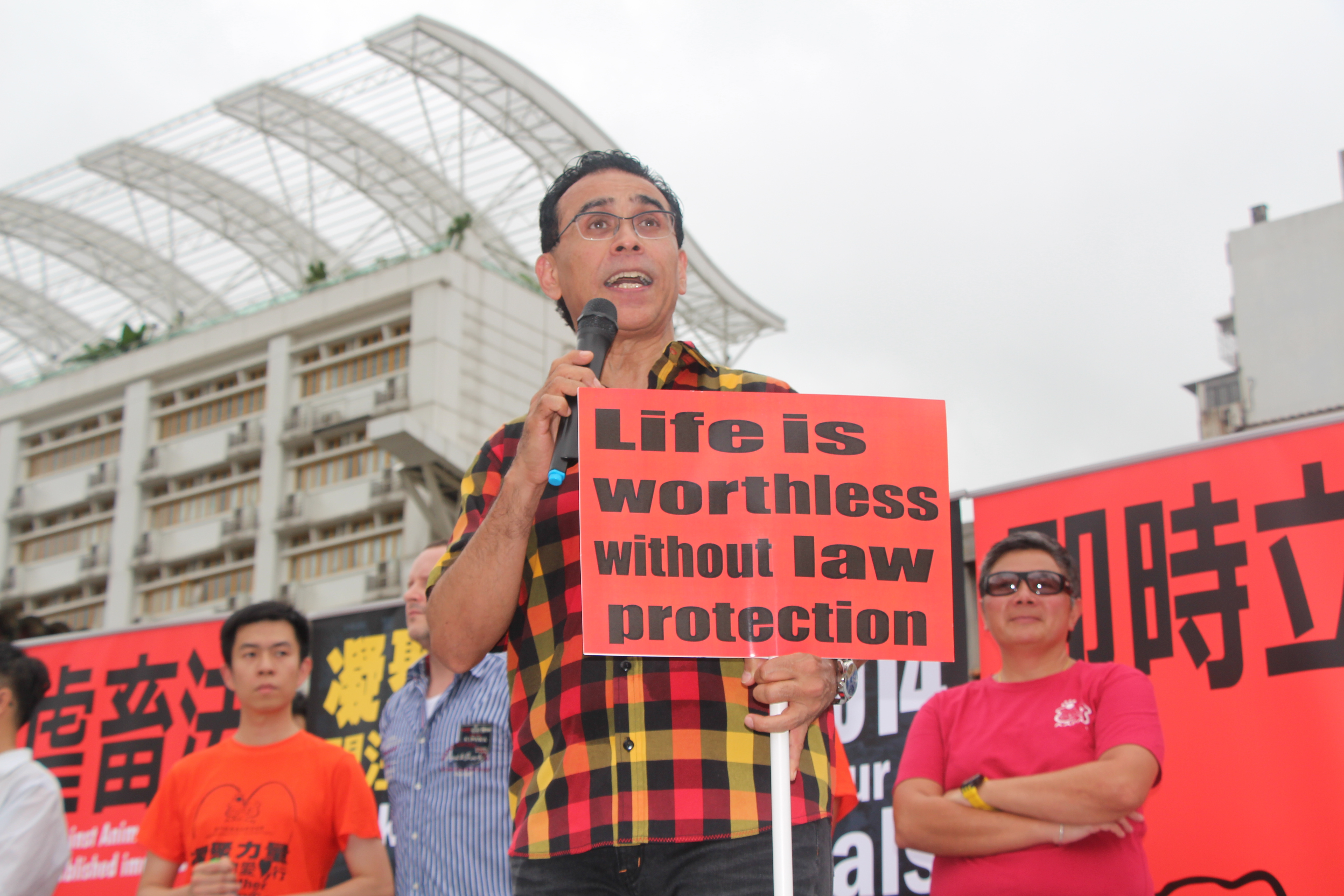 Jose Pereira Coutinho protesting in the streets of Macau in 2014